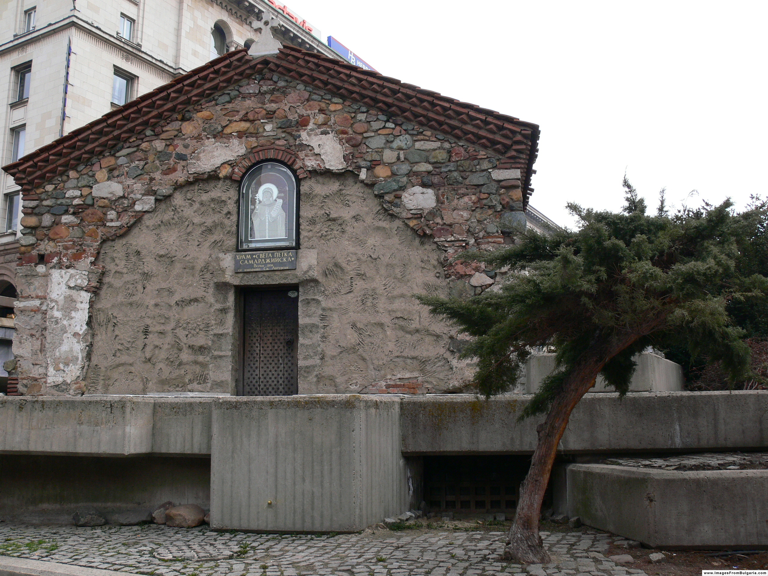 Church "Saint Petka", Sofia, Bulgaria